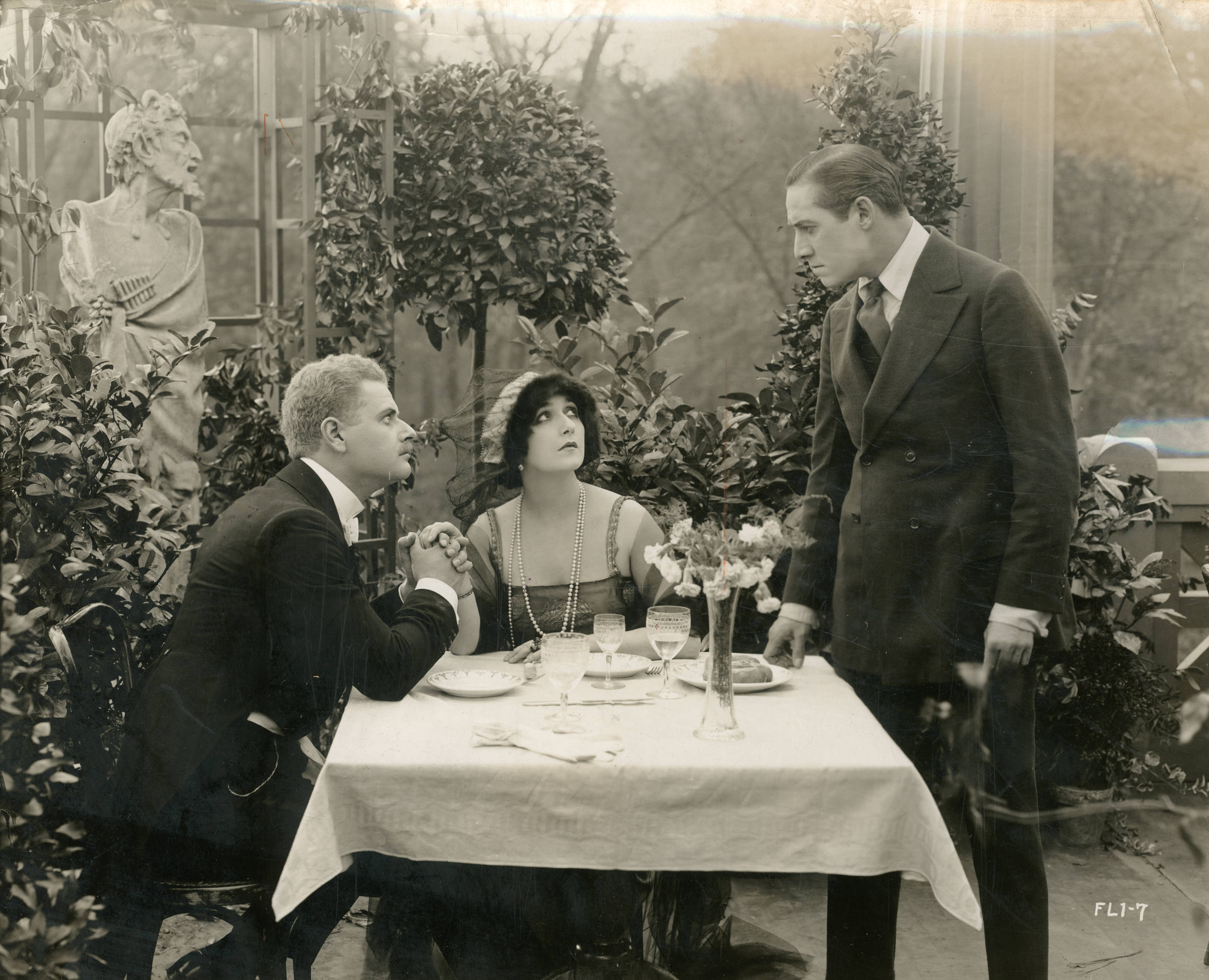 A scene from the American drama film The Eternal Temptress (1917), which showed at the Liberty Theater, Seattle. Date stamped Dec. 16, 1917. Includes Alan Hale, Lina Cavalieri, and Elliott Dexter (right). Subjects: motion pictures, actresses, actors